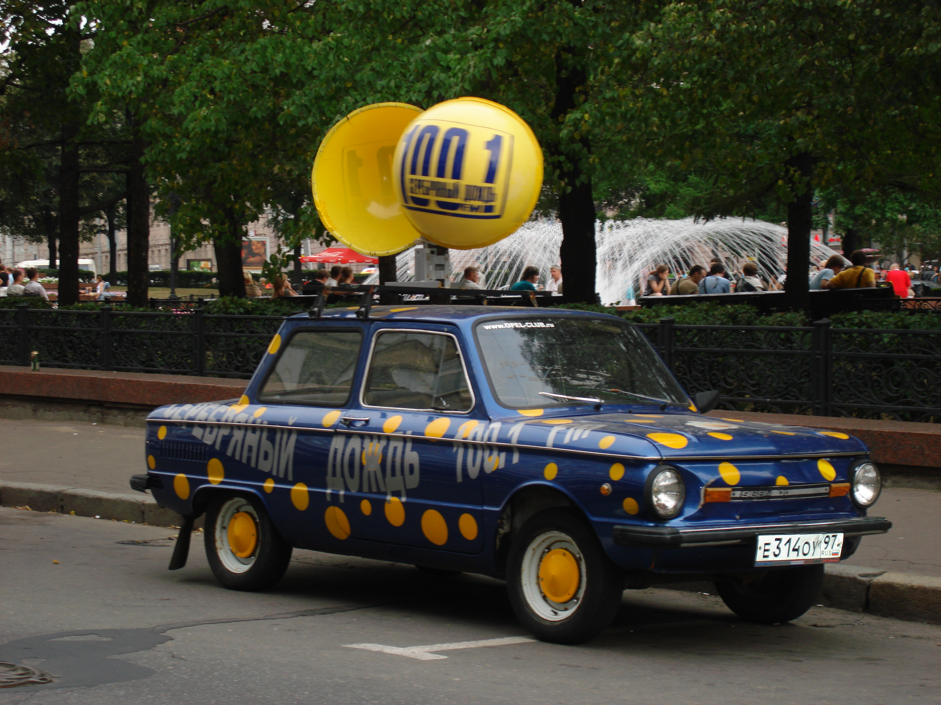 Funky Zaporozhets of Silver Rain Radio in Moscow, Russia (Pushkin square)